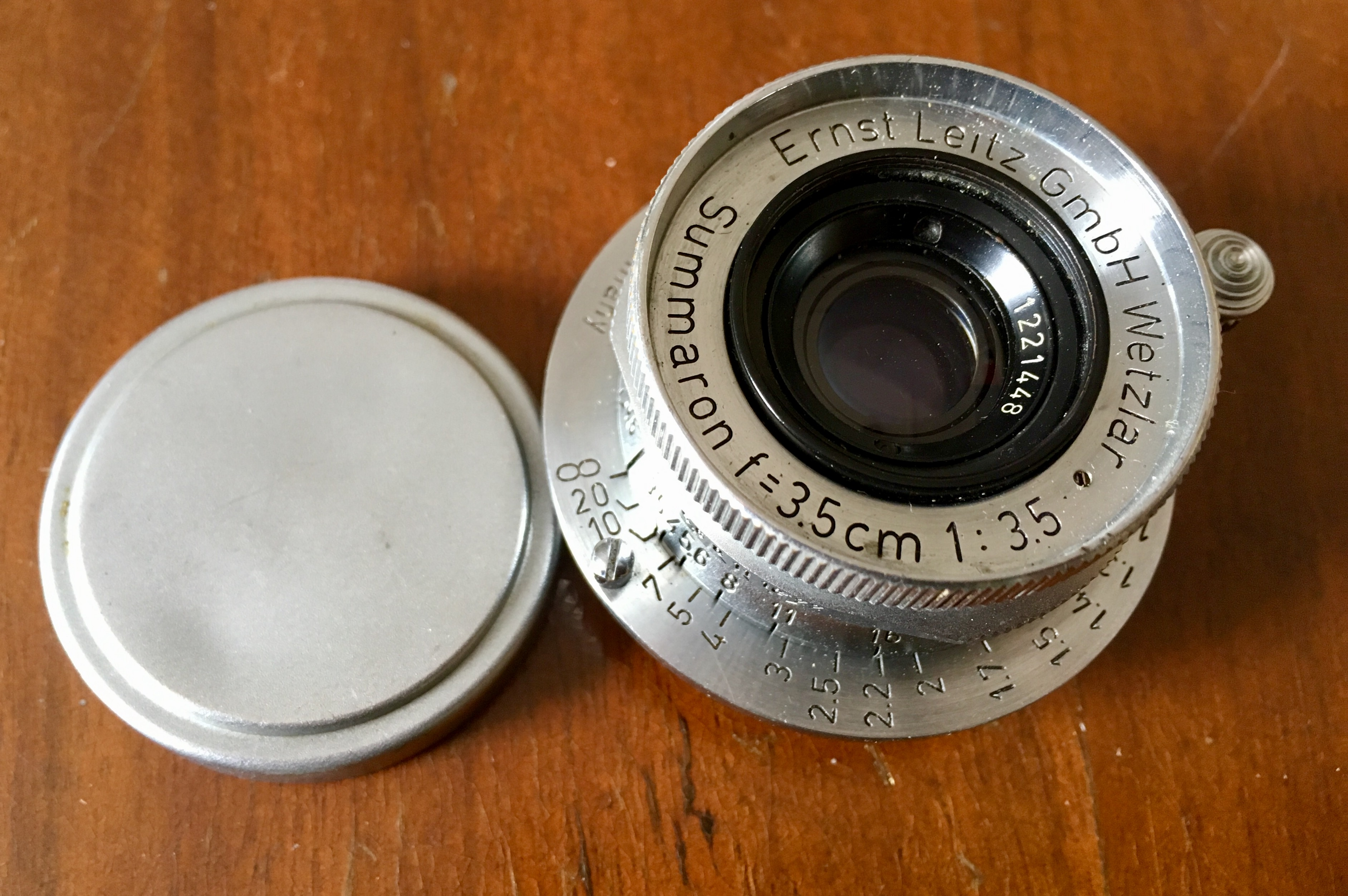 Summicron and Summaron